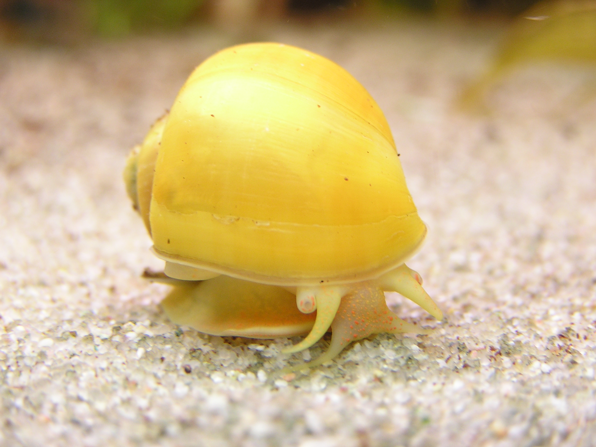 Golden apple snail